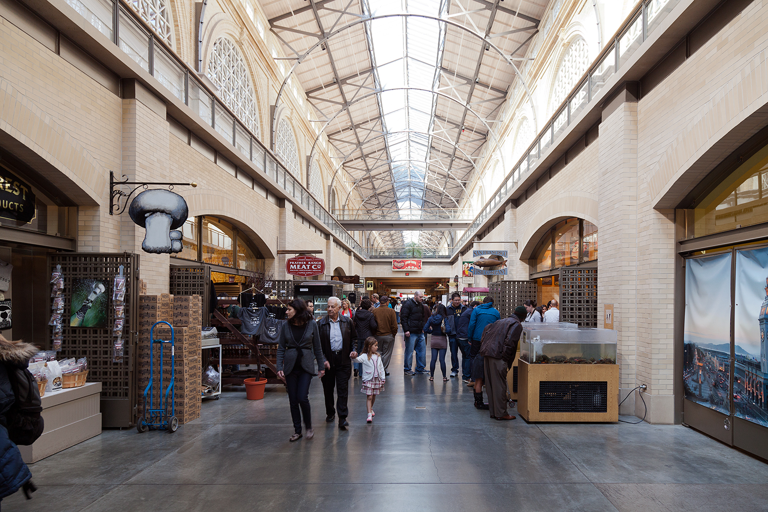 The Great Nave in the San Francisco Ferry Building